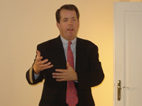 A. Eristoff discusses importance of local elections before the Tbilisi State University professors and students, 2006.